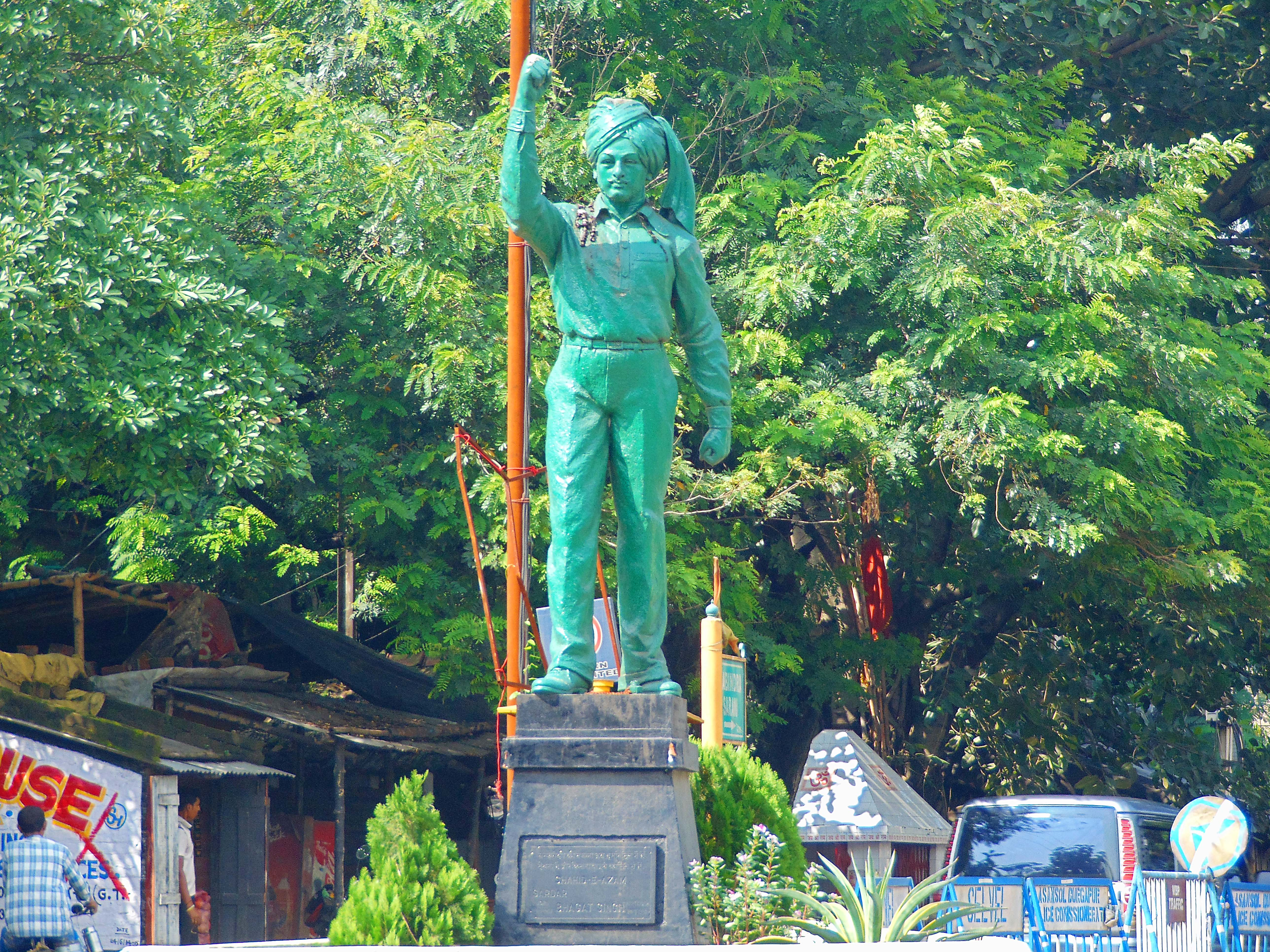 Bhagat Singh More / Burnpur More. G.T. Road, Asansol. Diversions towards Burnpur (Burnpur Road) and towards Bypass, Jubilee More, Sen Raleigh, Dumka, Chittaranjan, etc (Sen Raleigh Road)